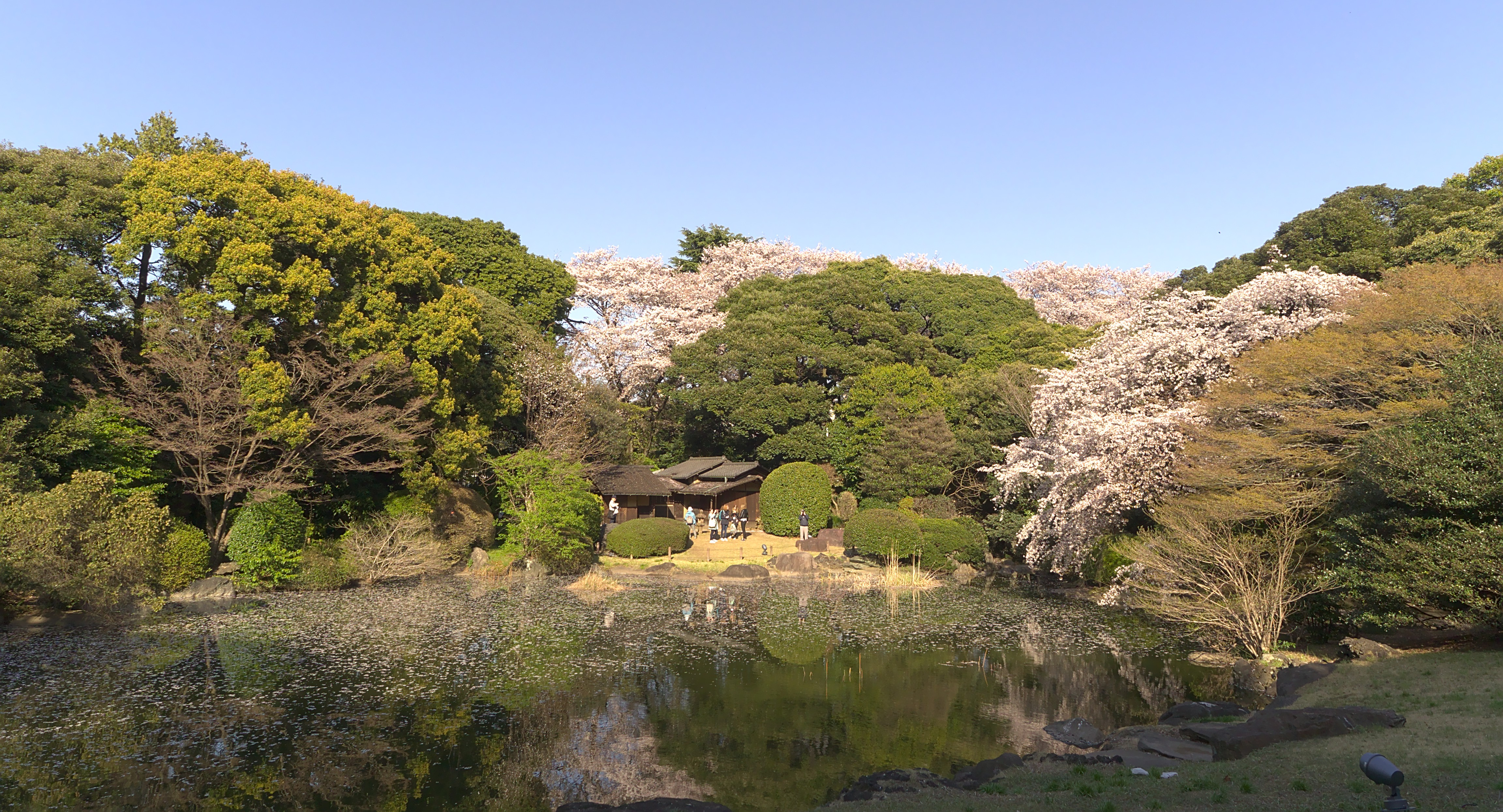 Garden and the Tengoan teahouse of the Tokyo National Museum in spring afternoon.